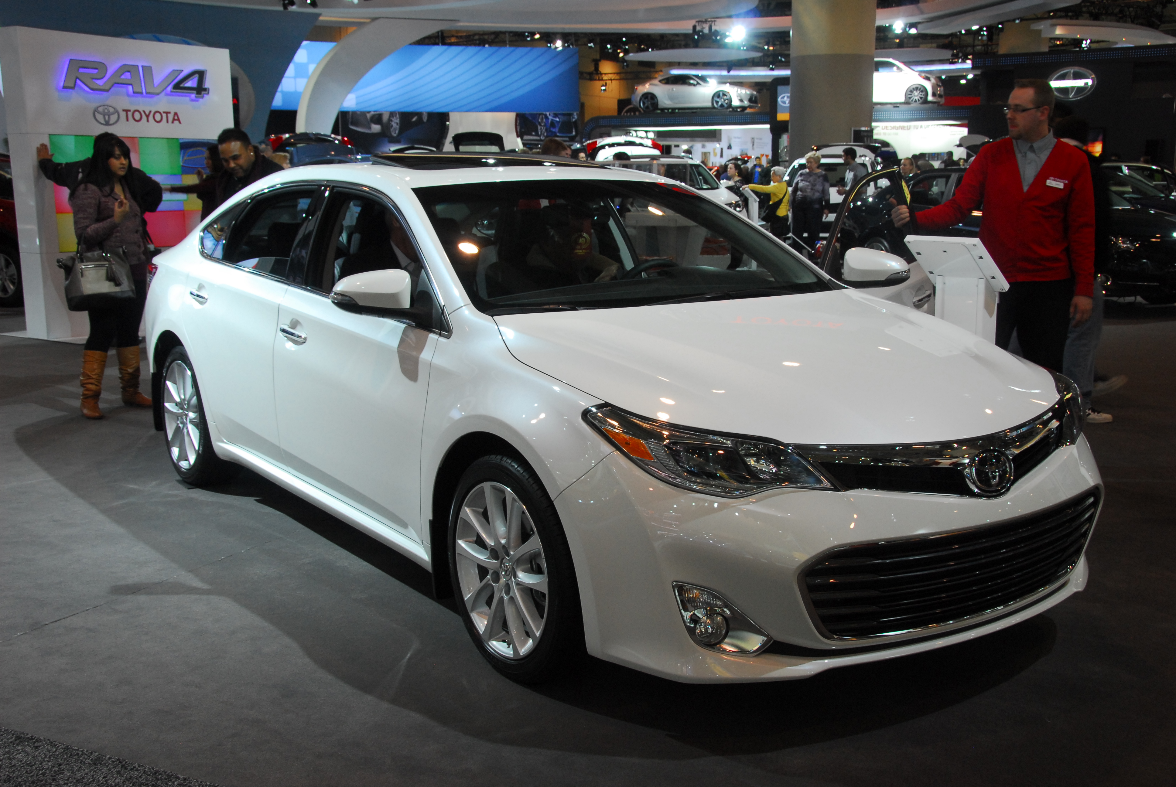 Toyota Avalon Fourth generation (XX40; 2012–present)